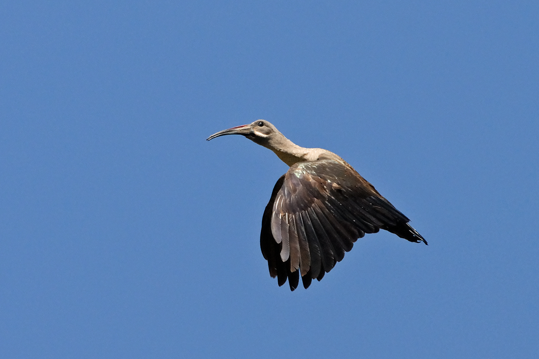 Hadeda Ibis (Bostrychia hagedash) in flight